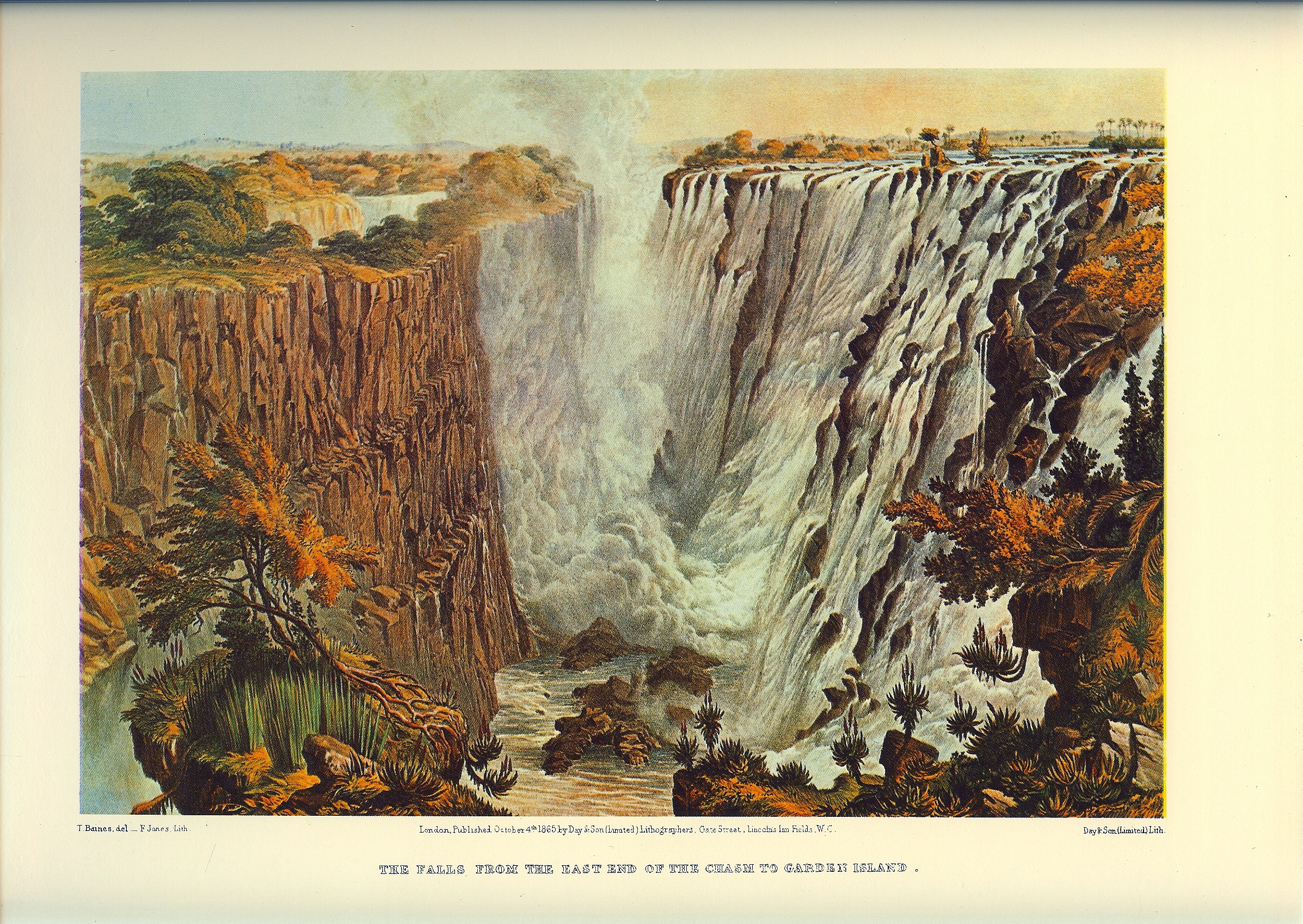 Title: "THE FALLS FROM THE EAST END OF THE CHASM TO GARDEN ISLAND." Additional text: "T. Baines del_F. Jones, Lith. London Published October 4th. 1865 by Day & Son, (Limited) Lithographers Gate Street, Lincoln's Inn Fields. WC. Day & Son (Limited) Lith." Content: Victoria Falls with trees and (probably) aloes